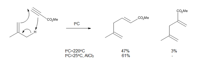 ene reaction